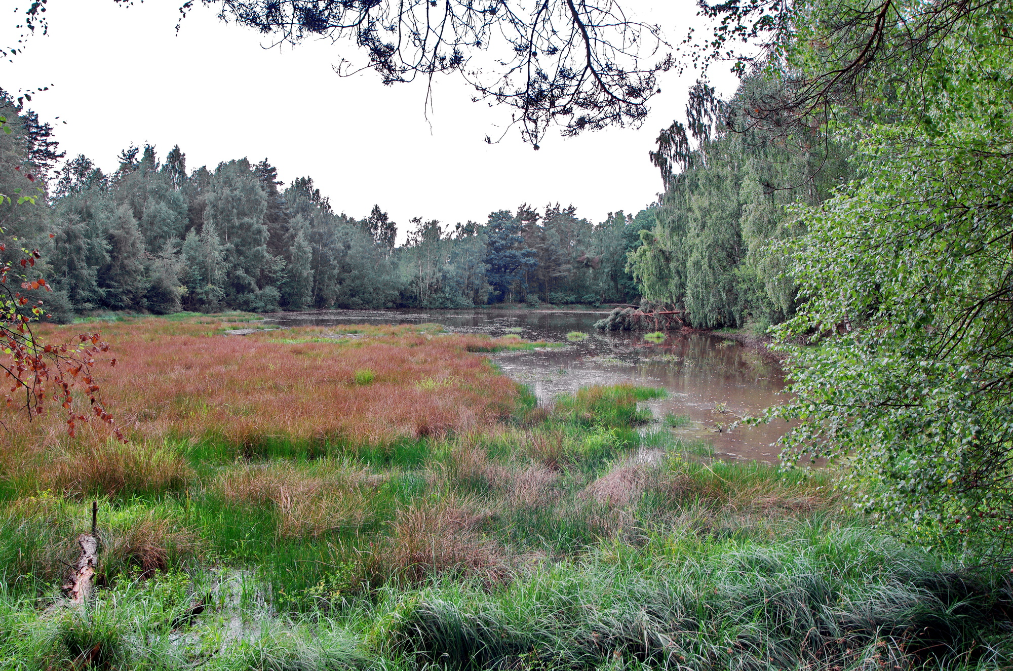 Nature reserve Studna u Lužné in Cheb District, Czech Republic